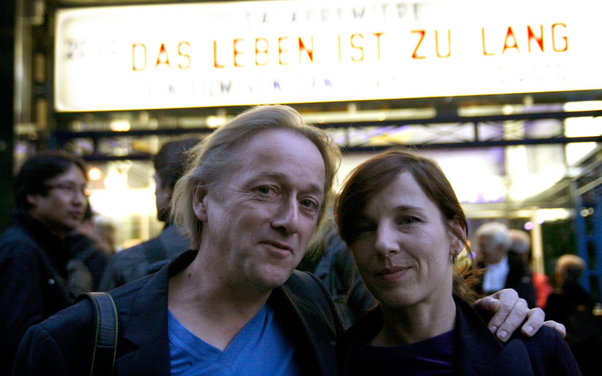 Meret Becker and Markus Hering at the Austrian premiere of the movie Das Leben ist zu lang (Life is to long) at the Gartenbaukino in Vienna.